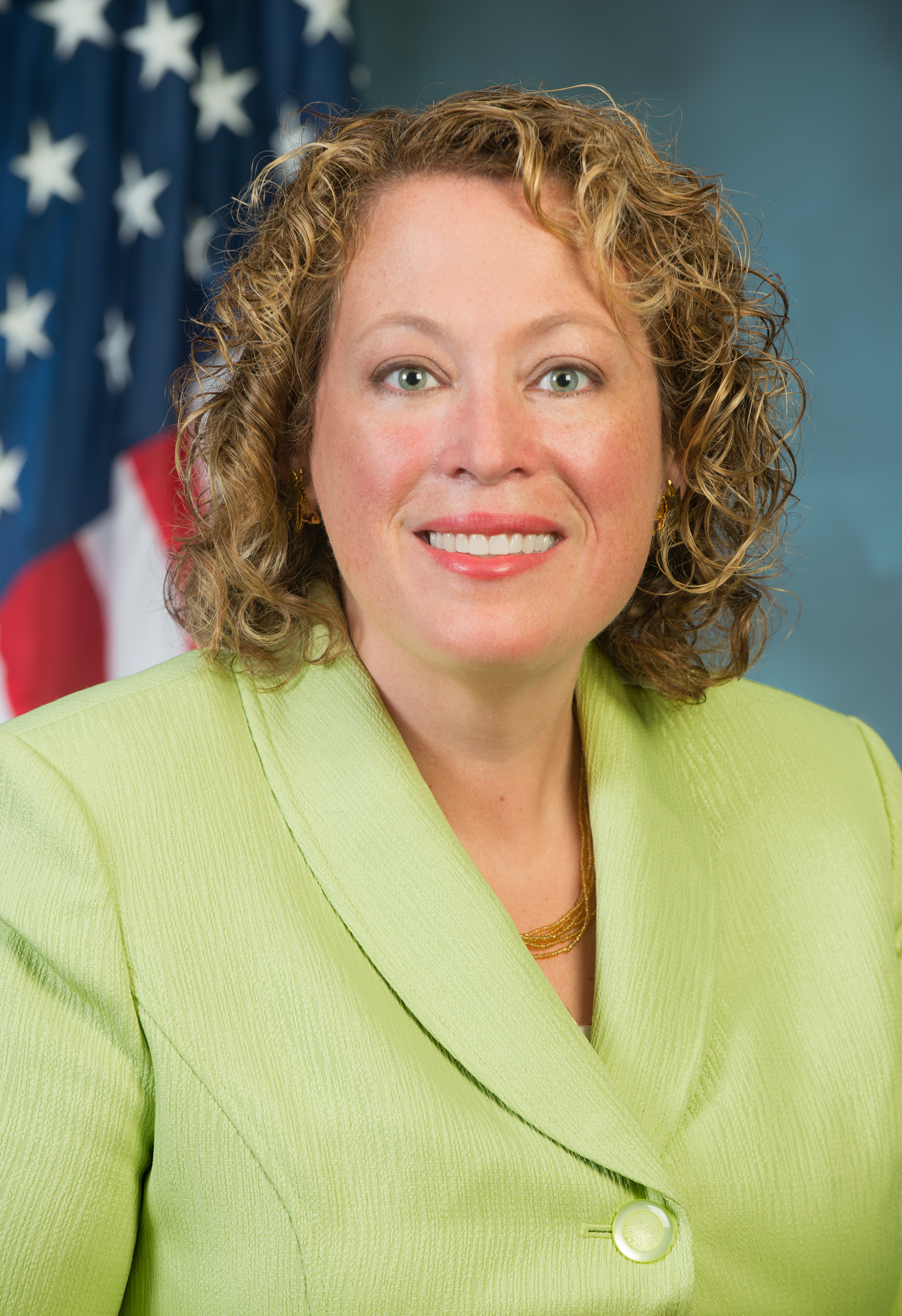 Official portrait of Housing and Urban Development official Helen G. Foster